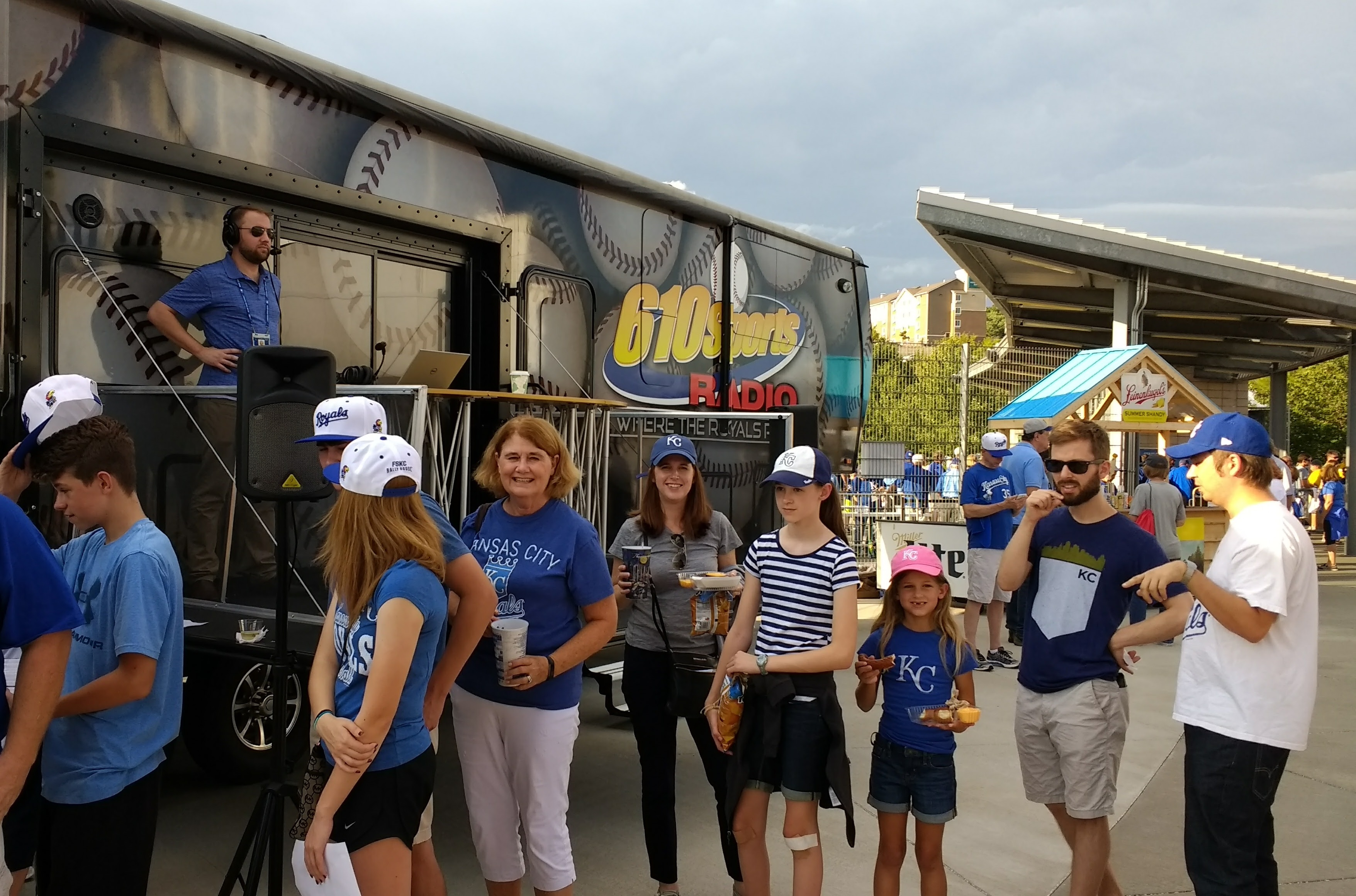 The 610 Sports Radio Mobile Studio at Kauffman Stadium.